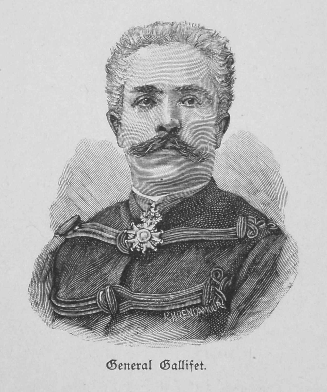 Gaston Alexandre Auguste, Marquis de Galliffet